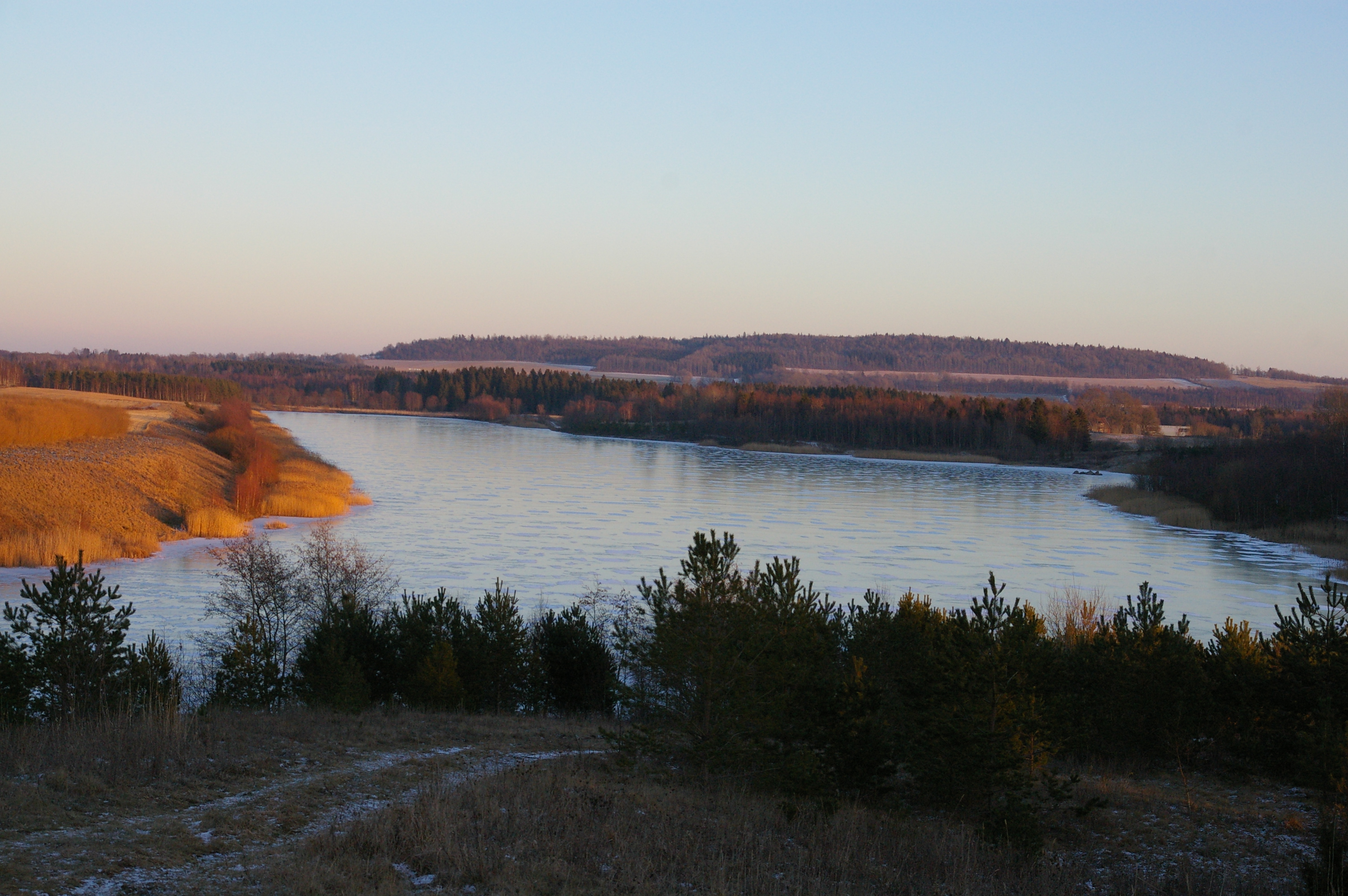 Tranebärssjön “Swe:cranberry lake” Ranstad uranium open-pit mine. Closed down and flooded.